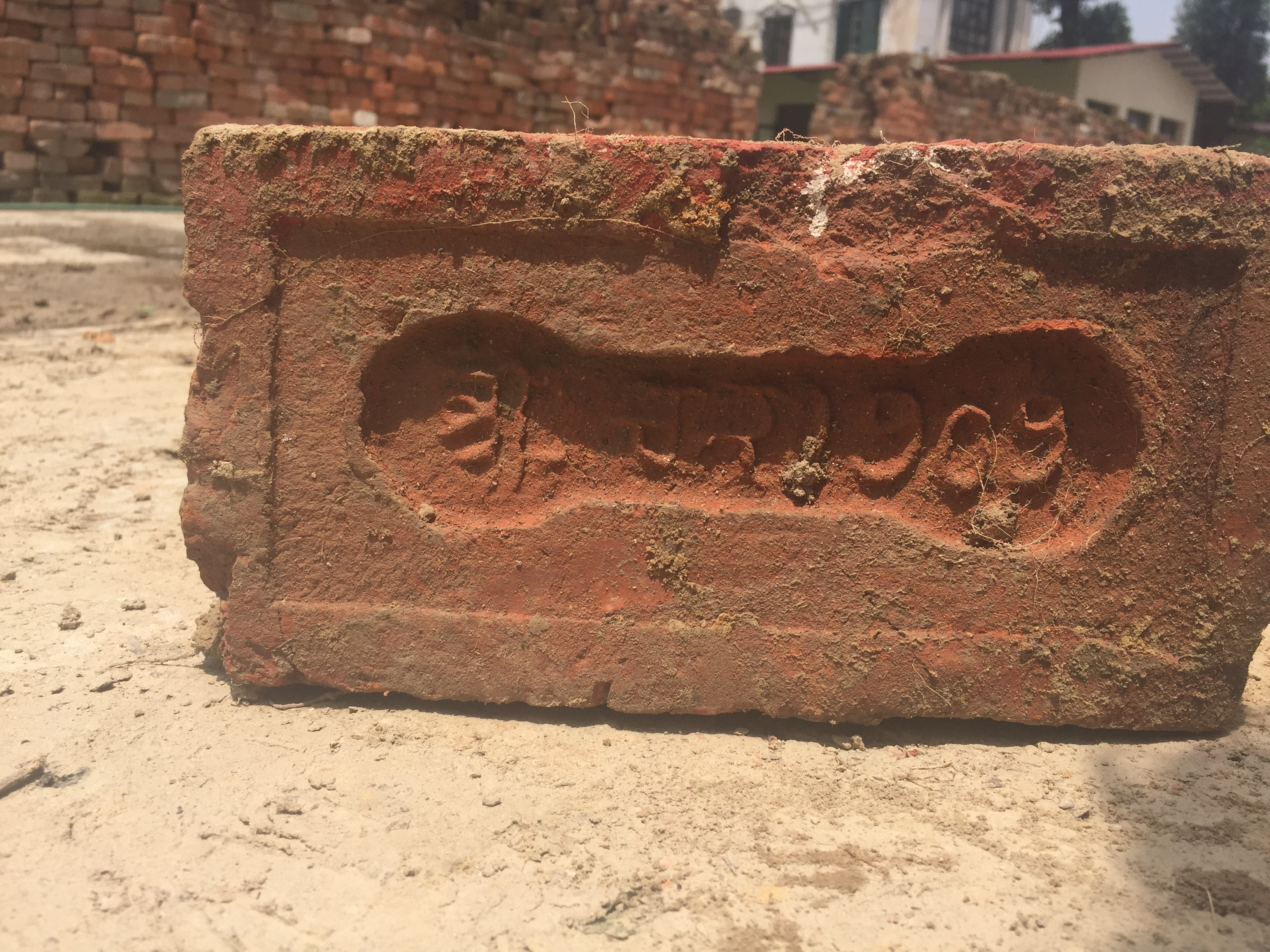 Inscription says " Shree 3 Chandra 1909 "